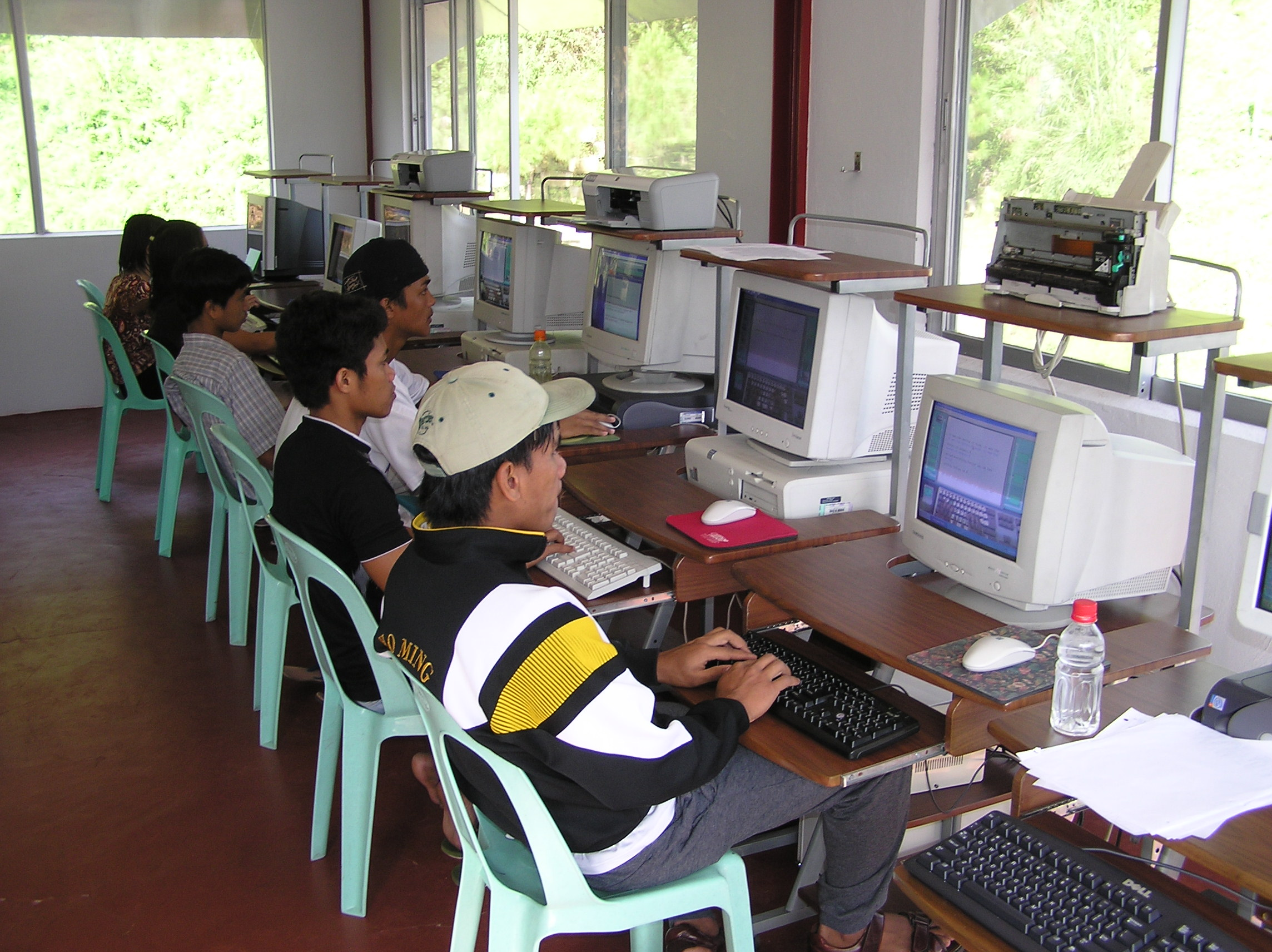 Philippine College of Ministry, Baguio City, Philippines. Students have twelve computers for their use.